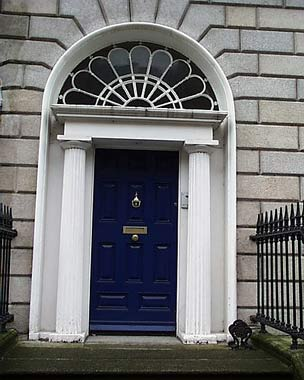 38 Upper Mount Street, Dublin - front door.